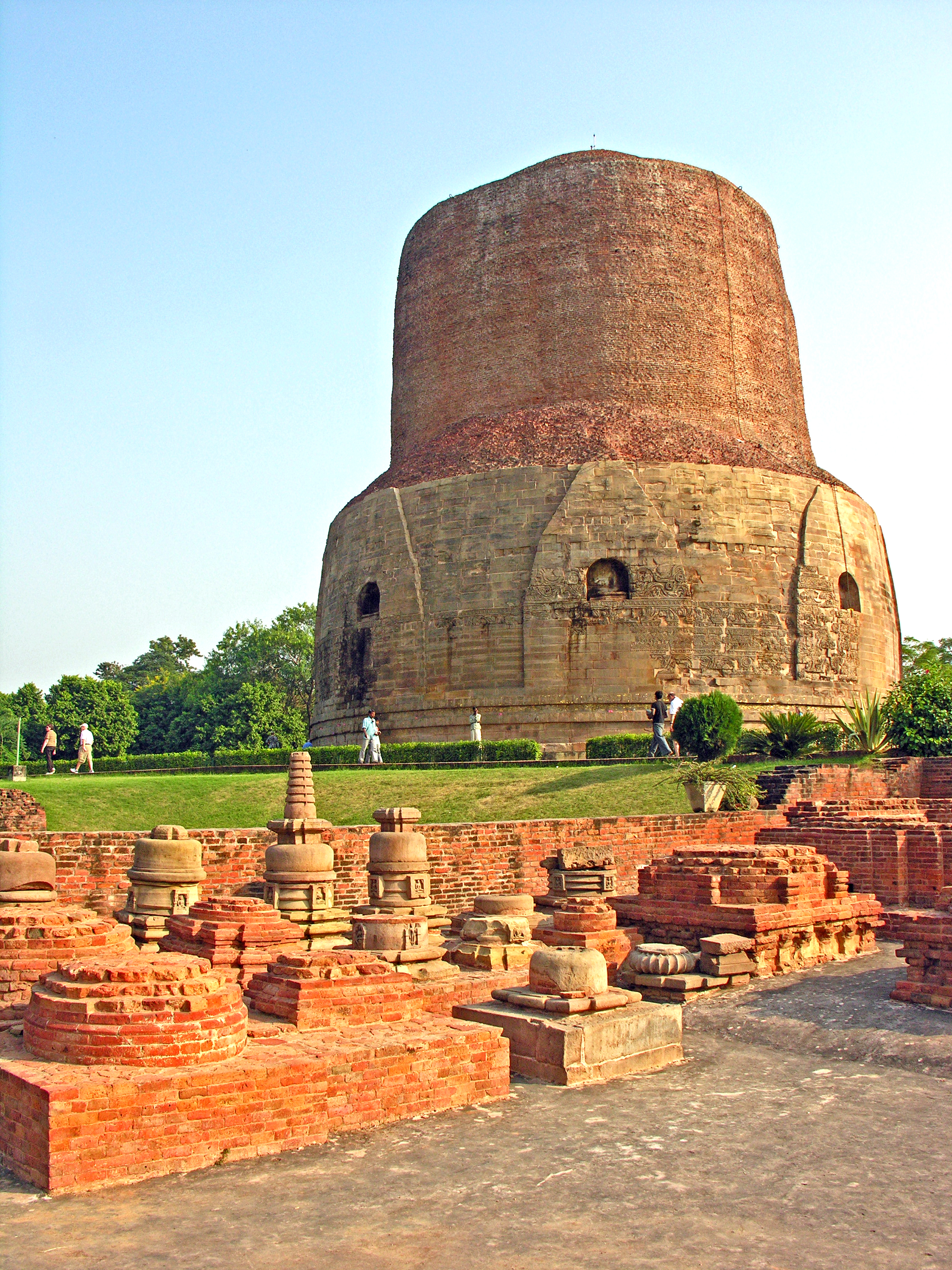 Dhamek Stupa is cylindrical in shape, 28.5m in diameter and 43.6m tall. The Archeological Survey of India claim that it marks the site of the First Sermon. It is not possible to confirm this claim as Dhammarajika stupa and the Gupta shrine of Pancayatana, are also believed by some to be the site of the First Sermon. The best thing to do is to treat the whole area as the place of the First Sermon.